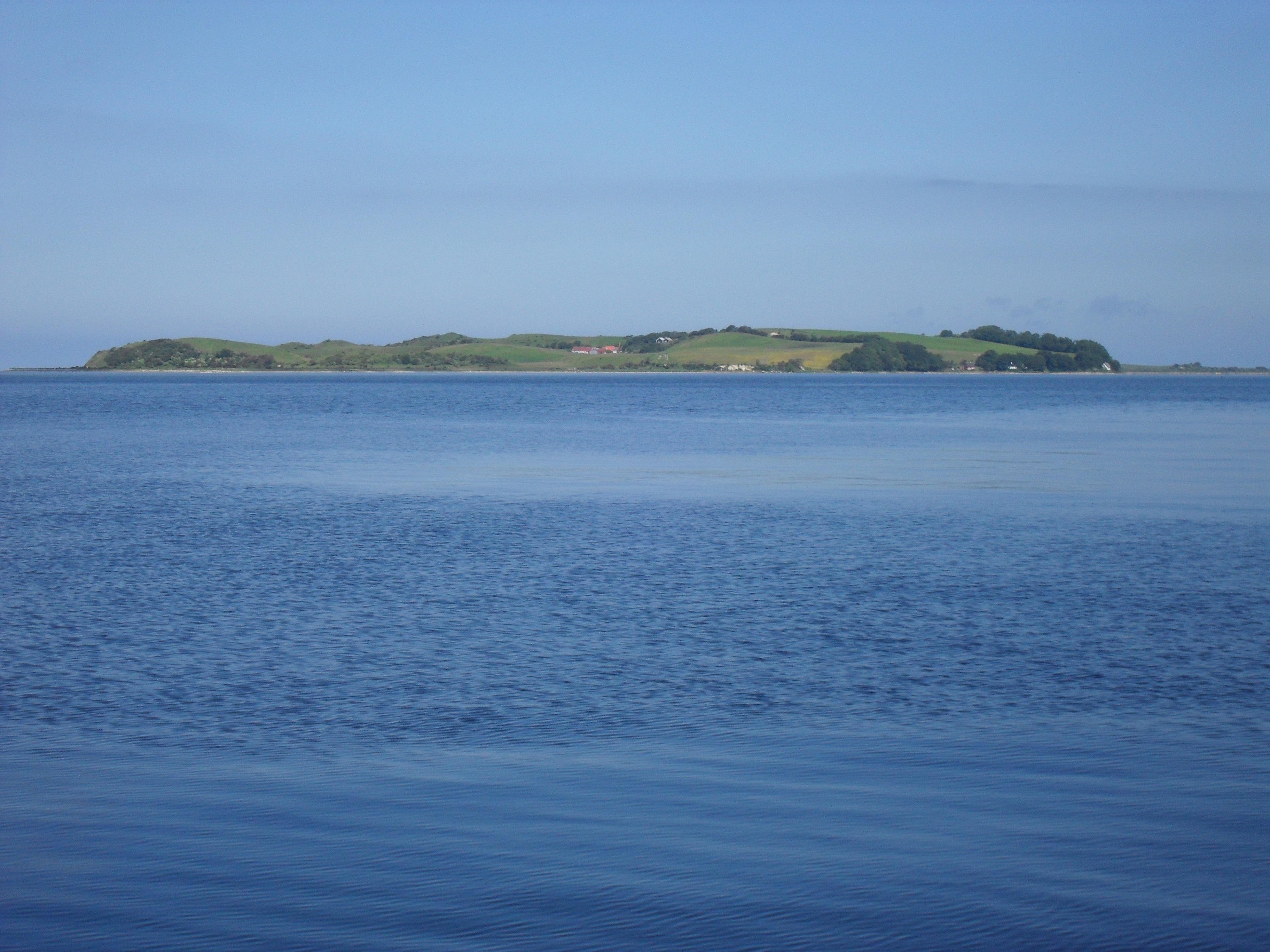 Nexelø from the sea